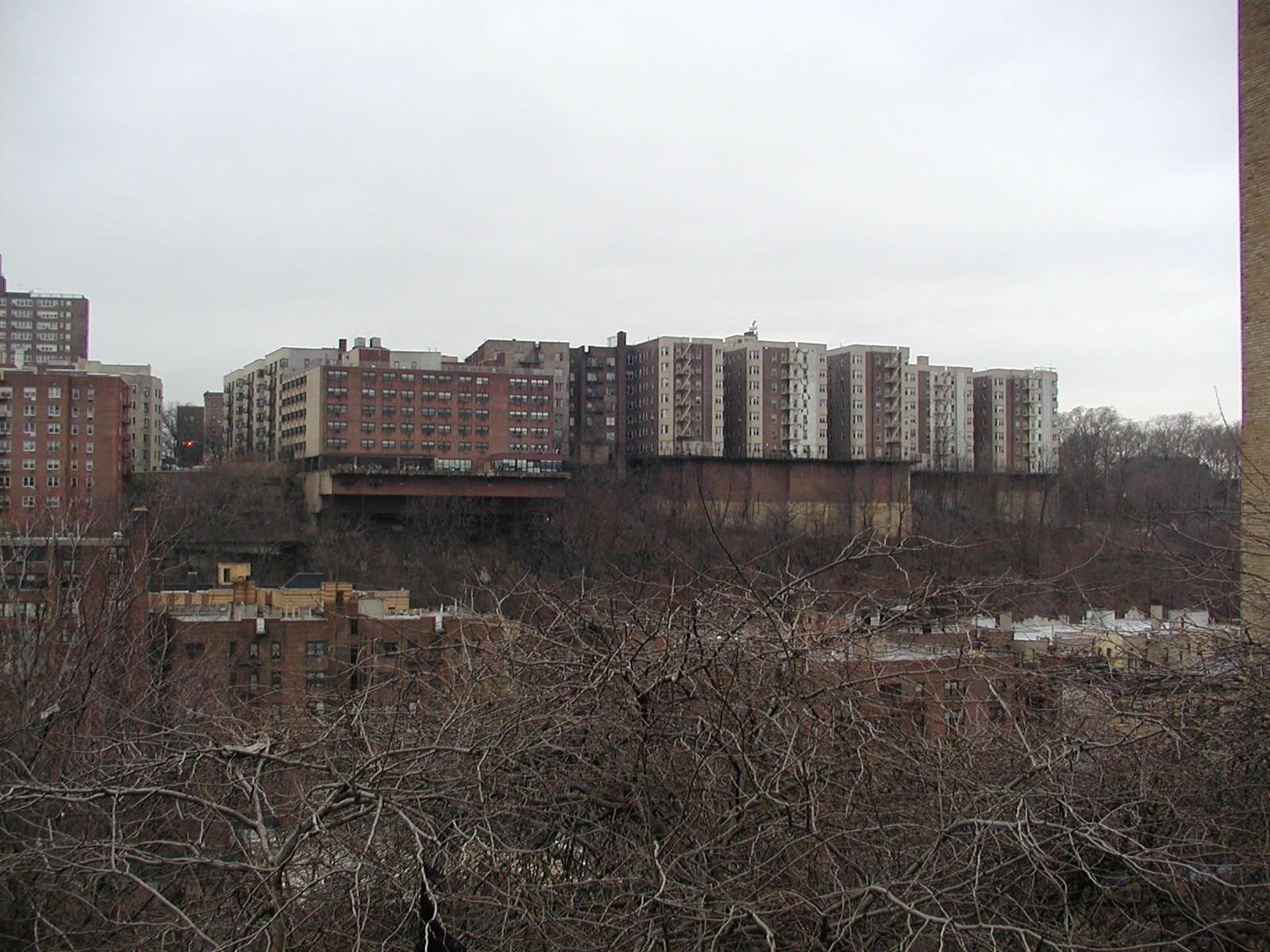 Apartment buildings north of the 190th Street in the Hudson Heights neighborghood in Washington Heights, Manhattan New York City. The view is from the east from Wadsworth Terace overlooking Broadway and Bennett Avenue in the valley below. Category:Photographs by User:Petri Krohn